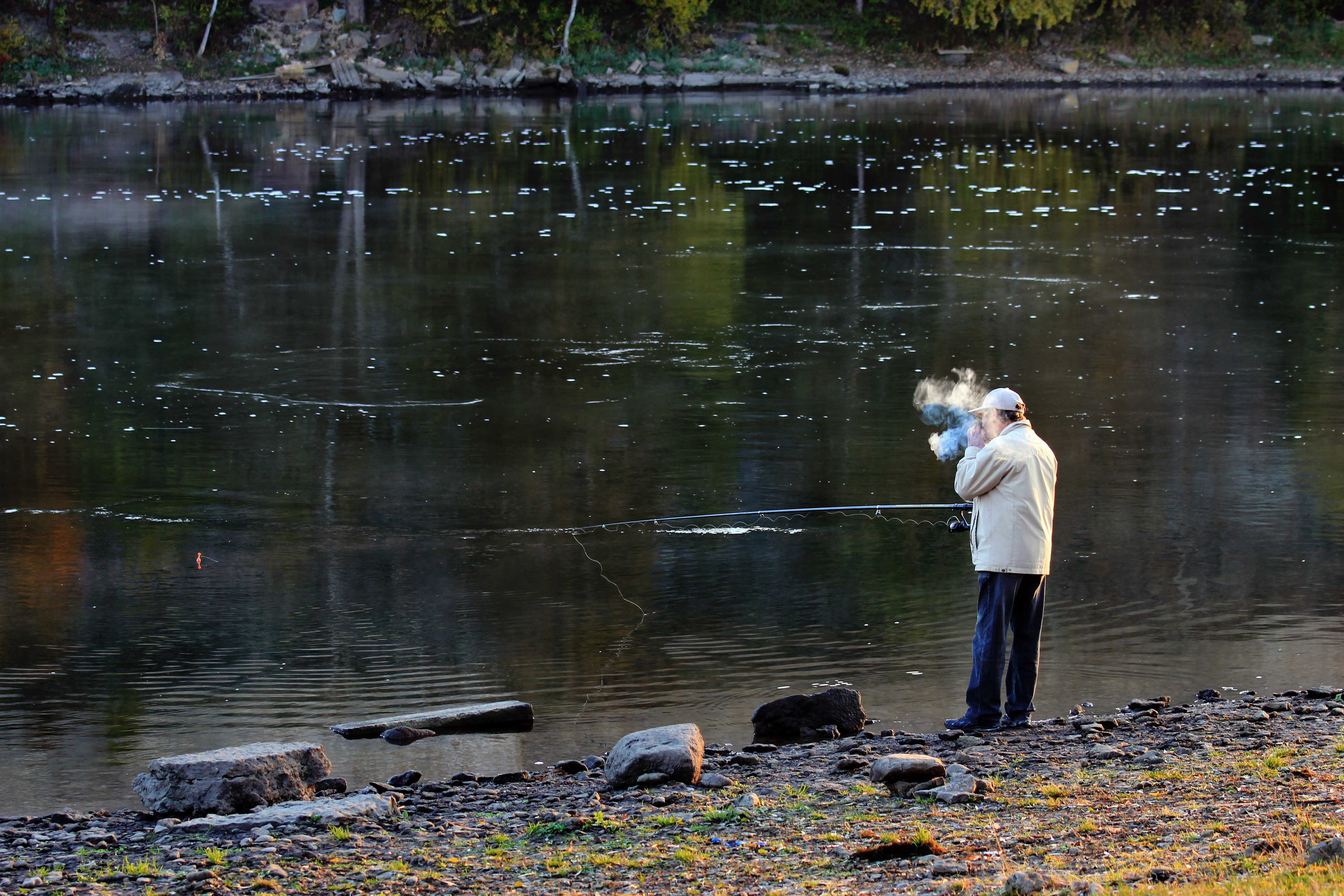 Narva River in the city